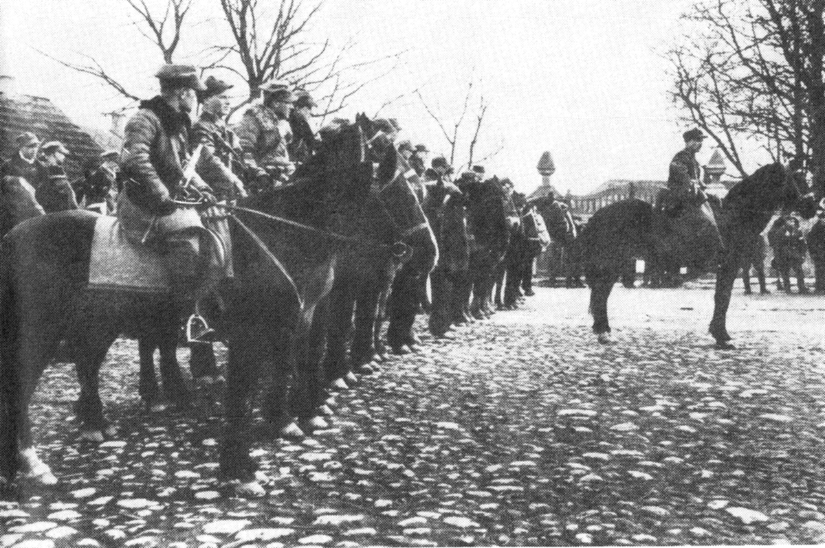 Cavalry Squadron of Polish Home Army